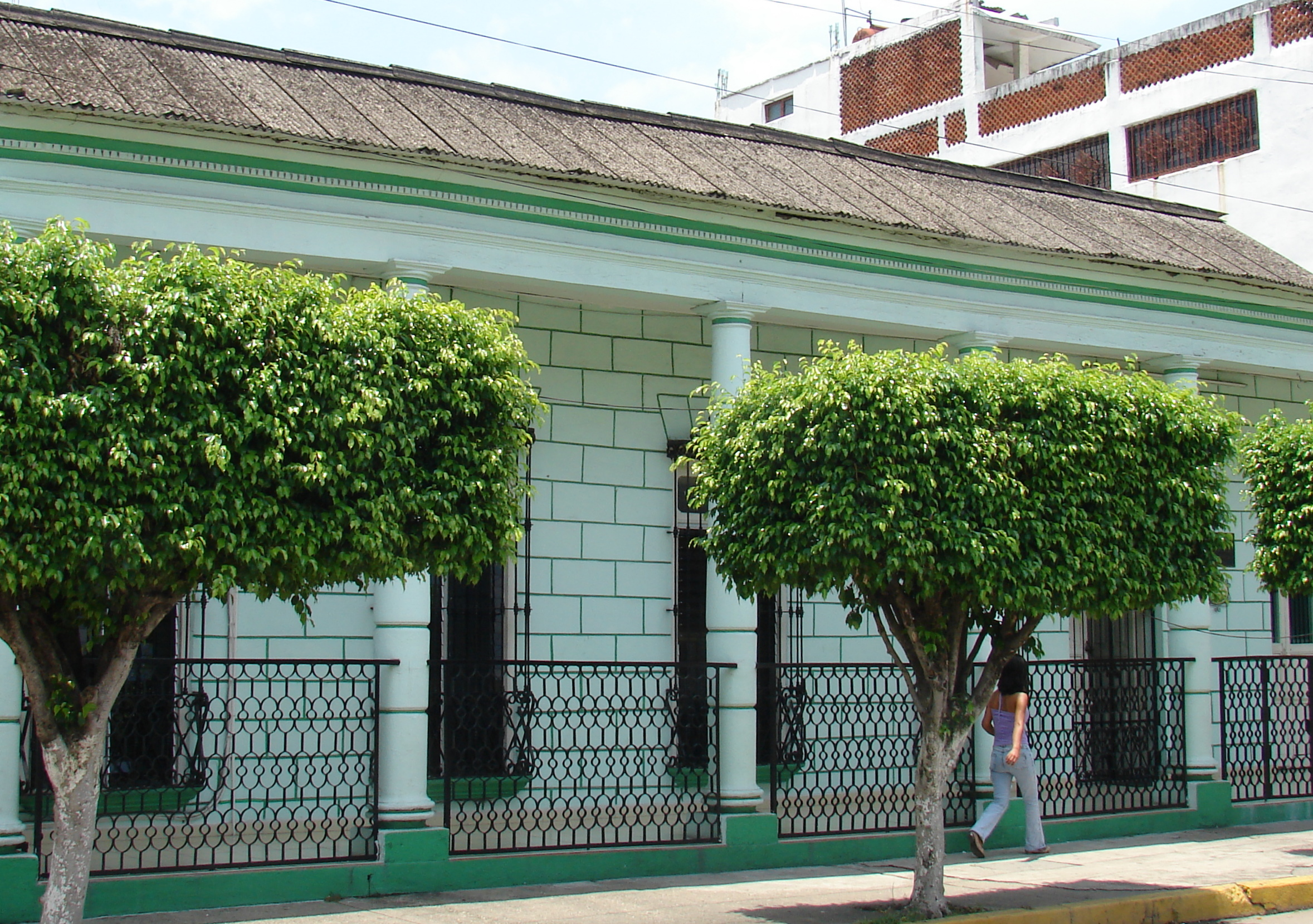 The house where it born Victor Bravo Ahuja in Tuxtepec, Oaxaca, Mexico.